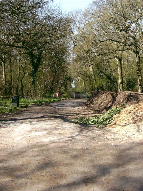 Bradley Woods (2) Westward view again from the same area as 392797. There are paths all through the interior and perimeter of the woods.